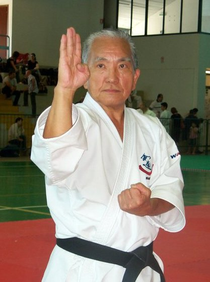 Sensei Yutaka Toyama